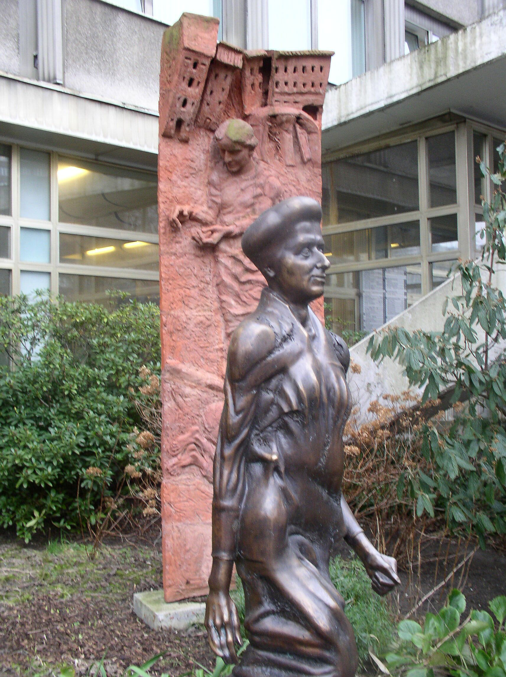 Sculpture of Rosa Luxemburg, made by Rolf Biebl, standing in front of the Neues Deutschland building, Franz-Mehring-Platz, Friedrichshain, Berlin.